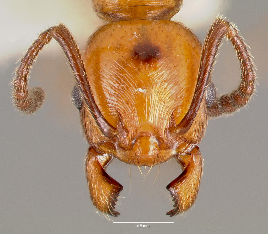 Head view of ant Huberia striata specimen casent0006149.